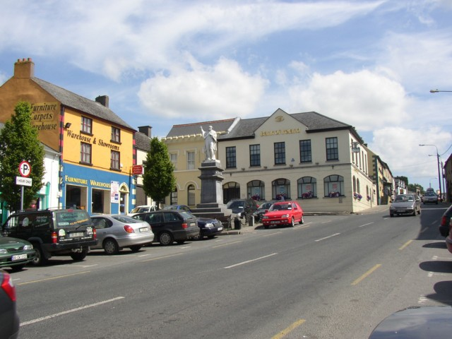 Street scene with statue of Father John Murphy, Tullow, Co. Carlow. One of many memorials to the heroes of the 1798 insurrection.